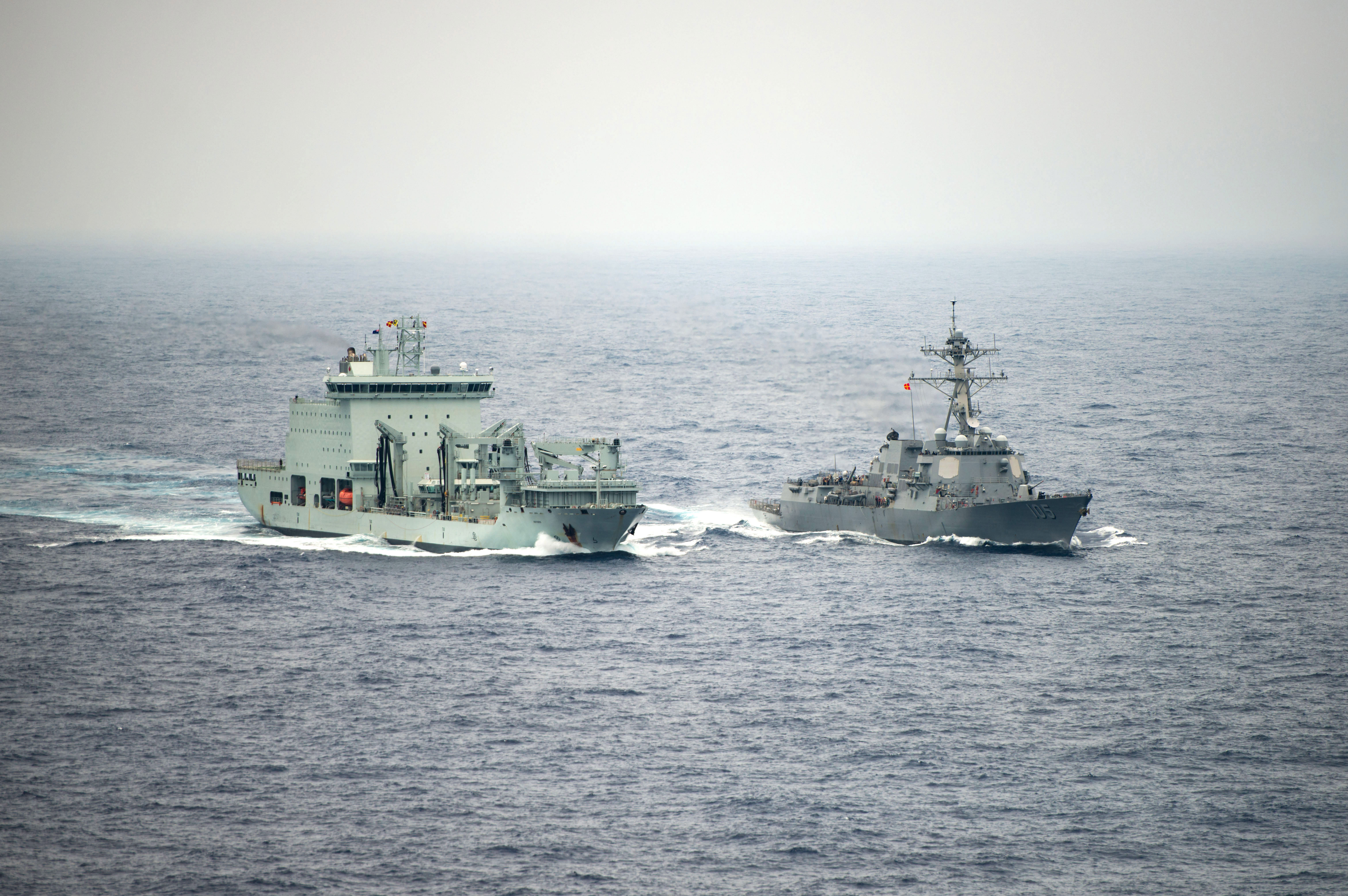 The Royal Canadian Navy supply ship MV Asterix and the U.S. Navy guided-missile destroyer USS Dewey (DDG-105) conduct a replenishment-at-sea while underway participating in the Rim of the Pacific (RIMPAC 2018) exercise in the Pacific Ocean on 29 July 2018.Twenty-five nations, 46 ships, five submarines, about 200 aircraft and 25,000 personnel were participating in RIMPAC from June 27 to 2 August 2018 in and around the Hawaiian Islands and Southern California. RIMPAC 2018 was the 26th exercise in the series that began in 1971.